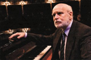 Costa Rican Composer Mario Alfagüell